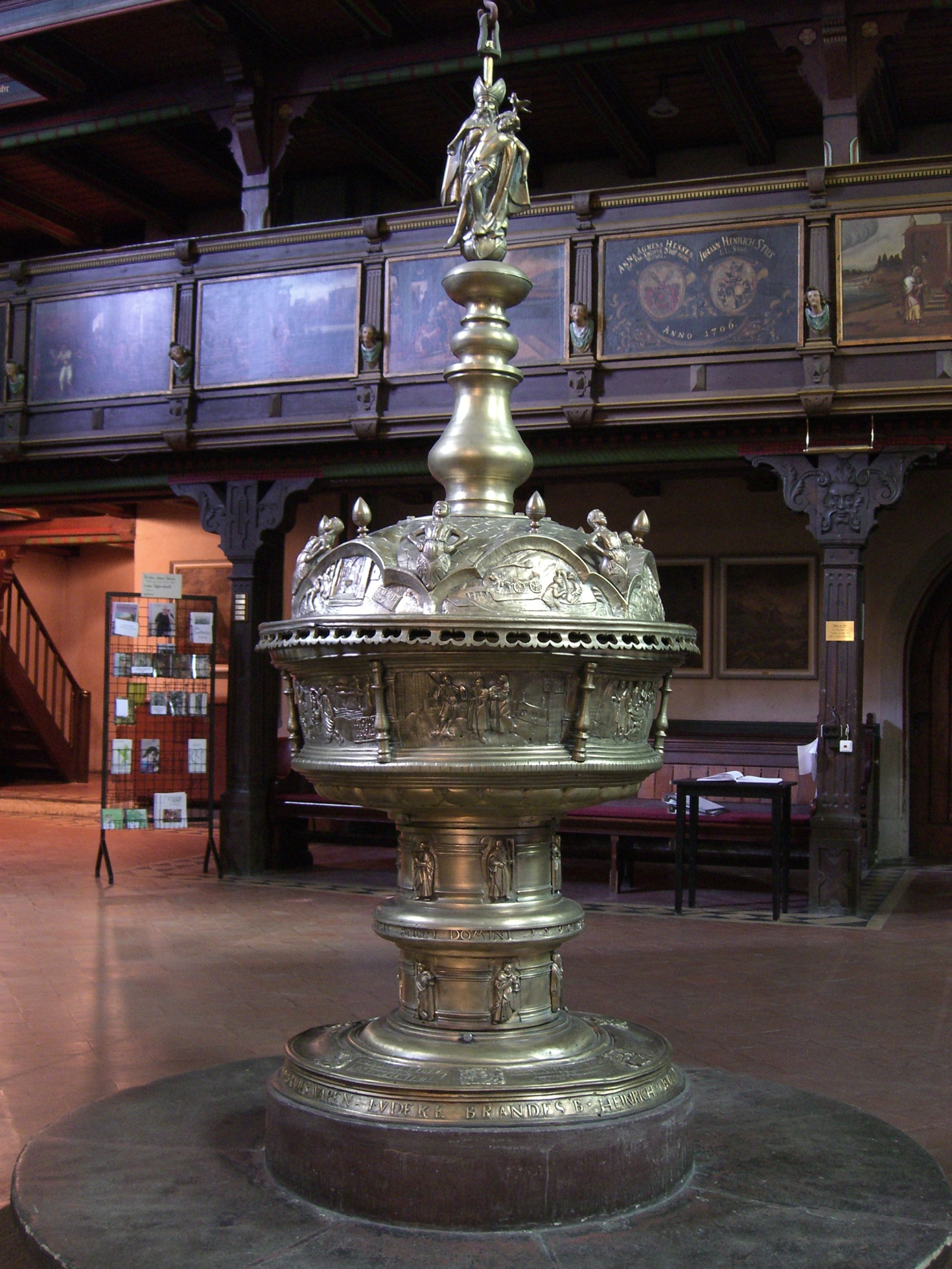 Evangelical-lutheran church "Saint Stephen" (St. Stephani) in Helmstedt: historic brass baptismal font (manufactured in 1590).